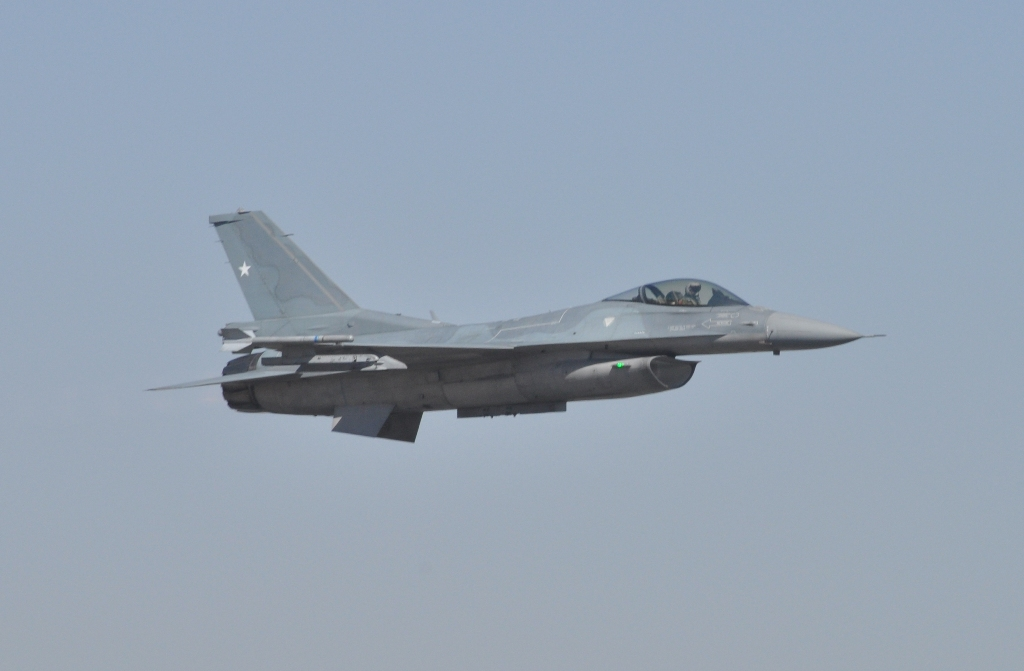 Fighter airplane